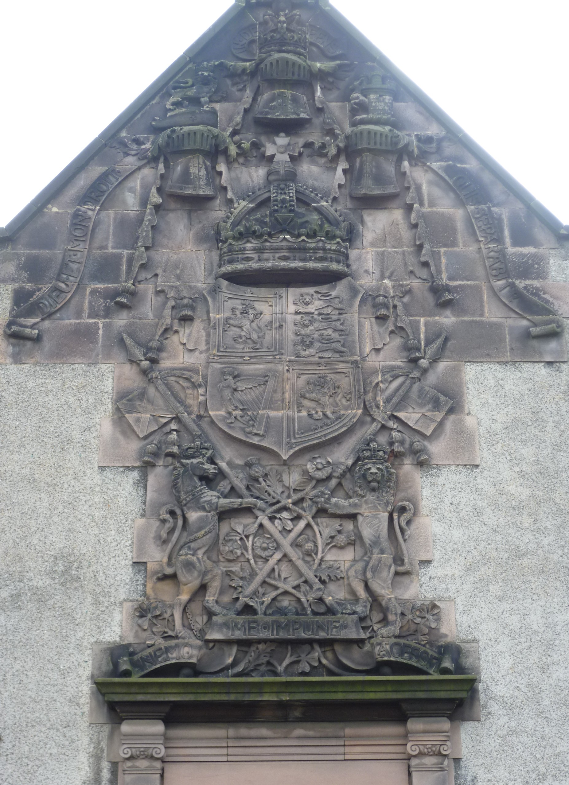 The Royal Arms carved on a gable of the hospital admin block.